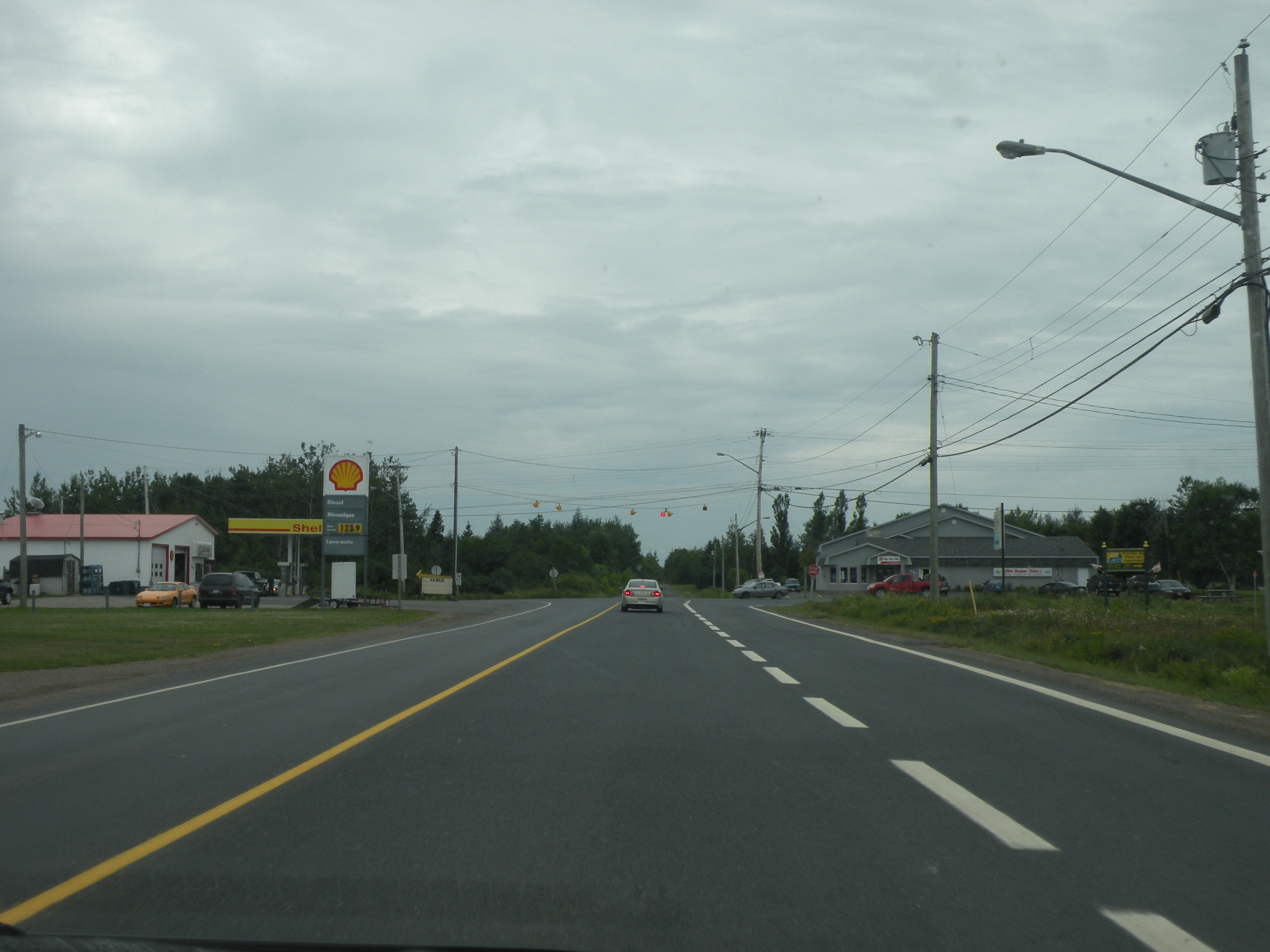 The Bloc, the main crossroad in Inkerman, New Brunswick, Canada.